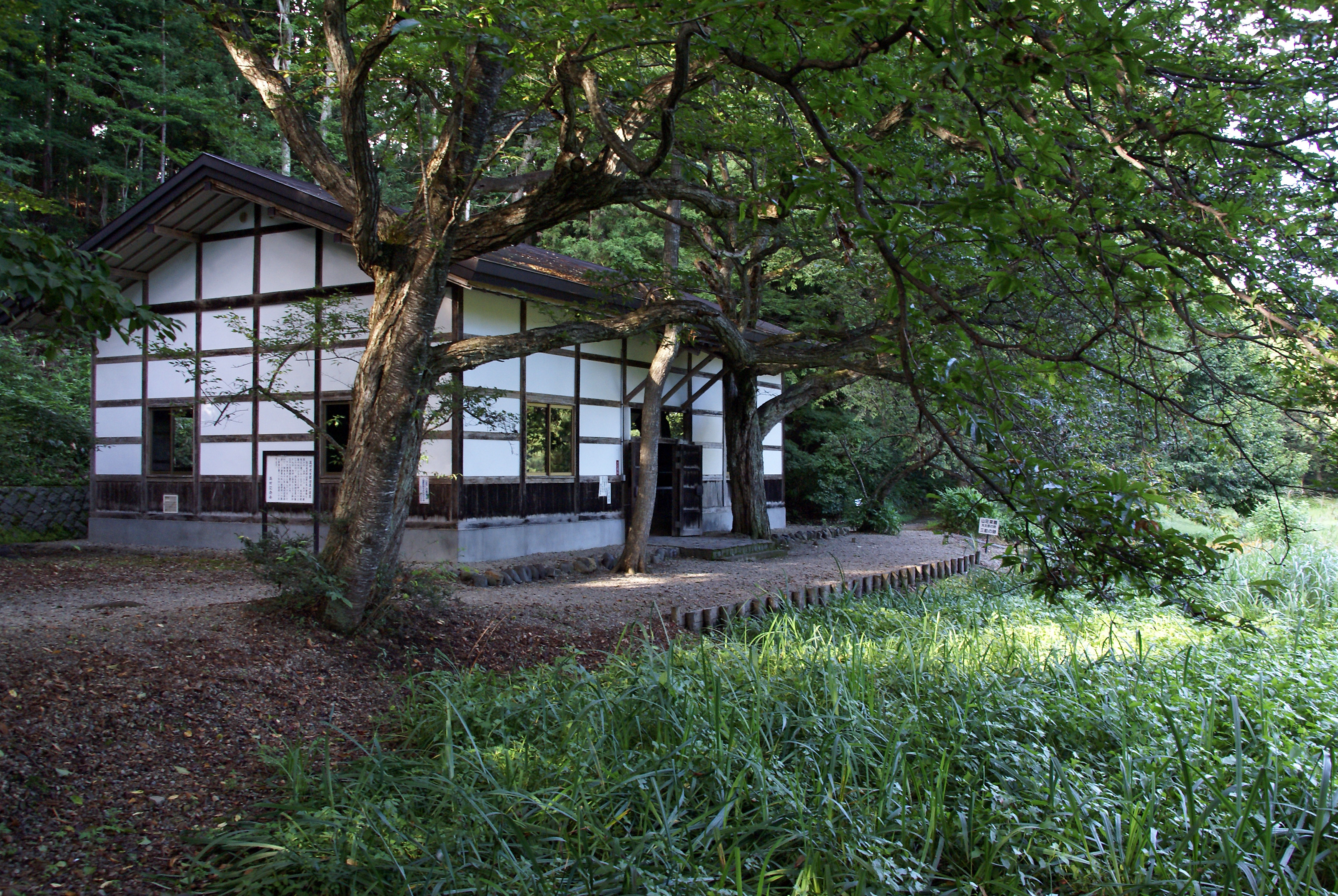 Takamura Sanso (lodge) in Hanamaki, Iwate prefecture, Japan